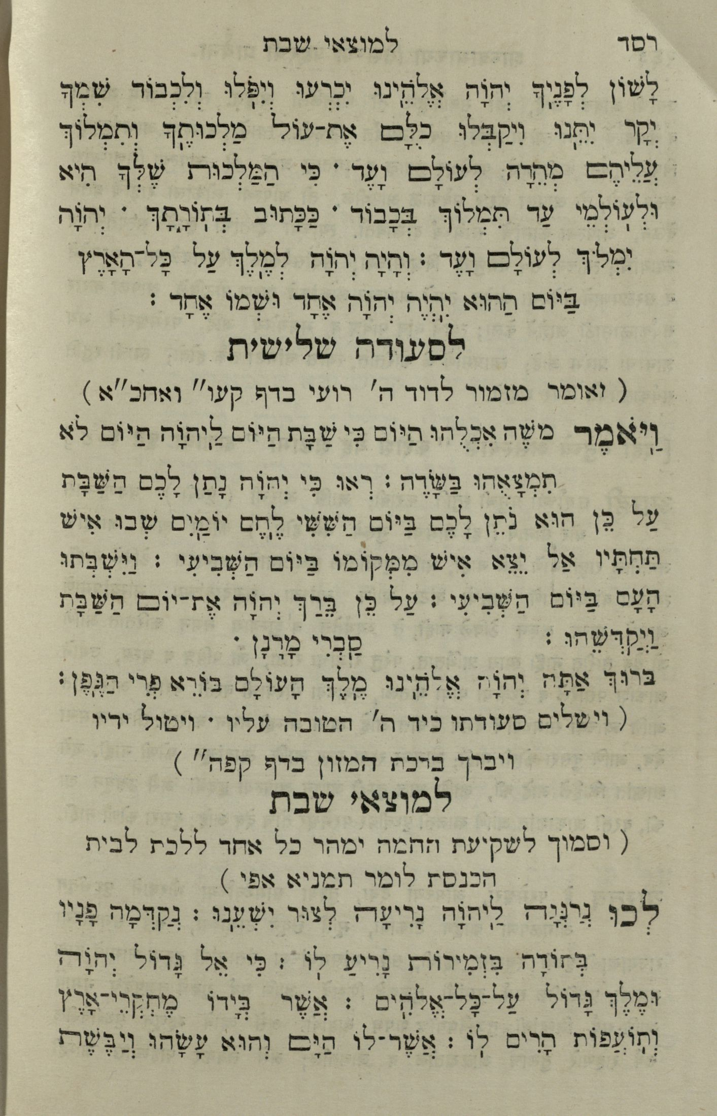 Jewish Prayer Book (Siddur) in Hebrew and Marathi , translated from Hebrew to Marathi in 1889 by Rajpurkar, Joseph Ezekiel